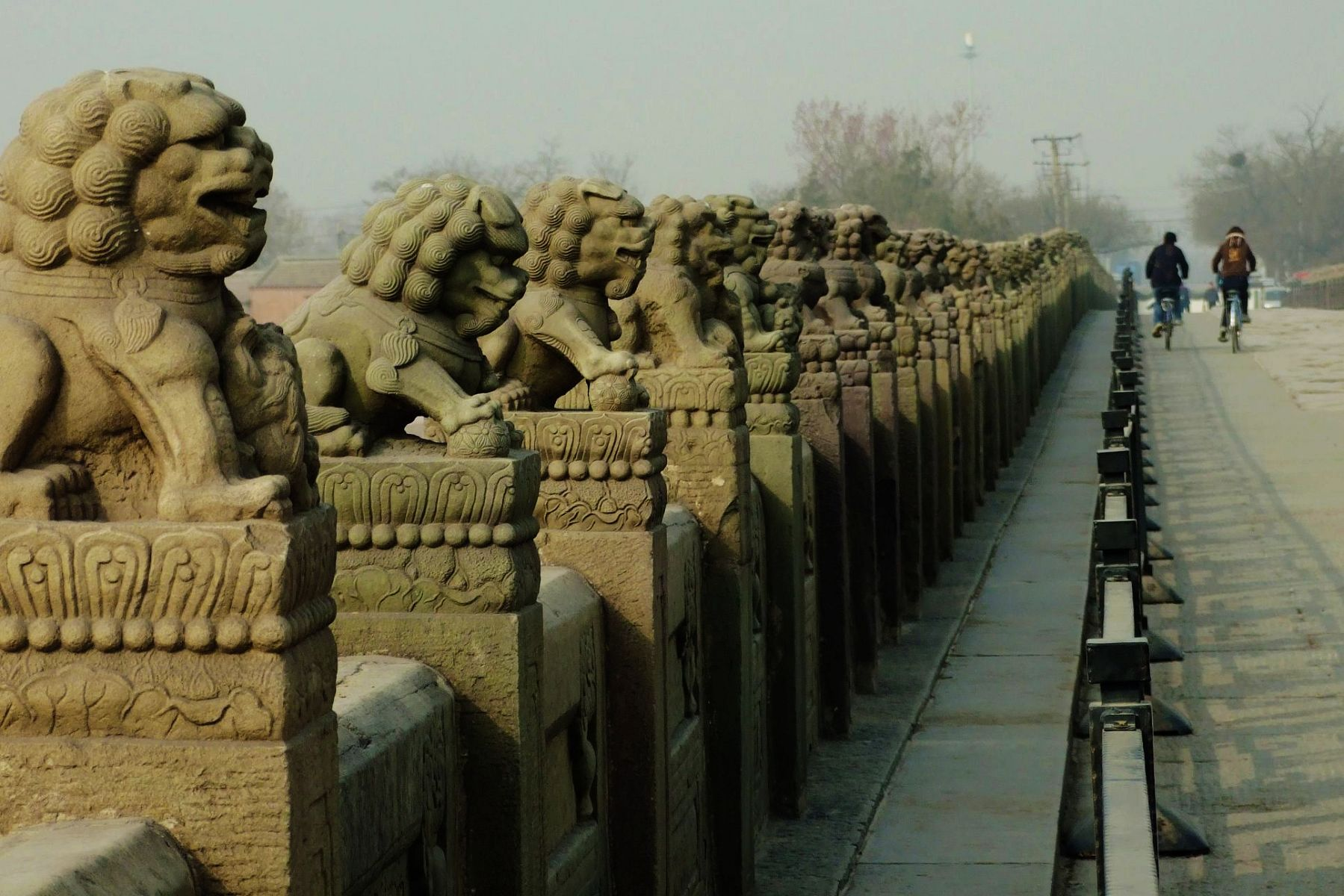 Lugou-Bridge-lions 中文（中国大陆）: 卢沟桥的狮子